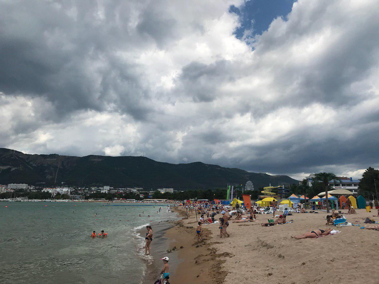 The beach